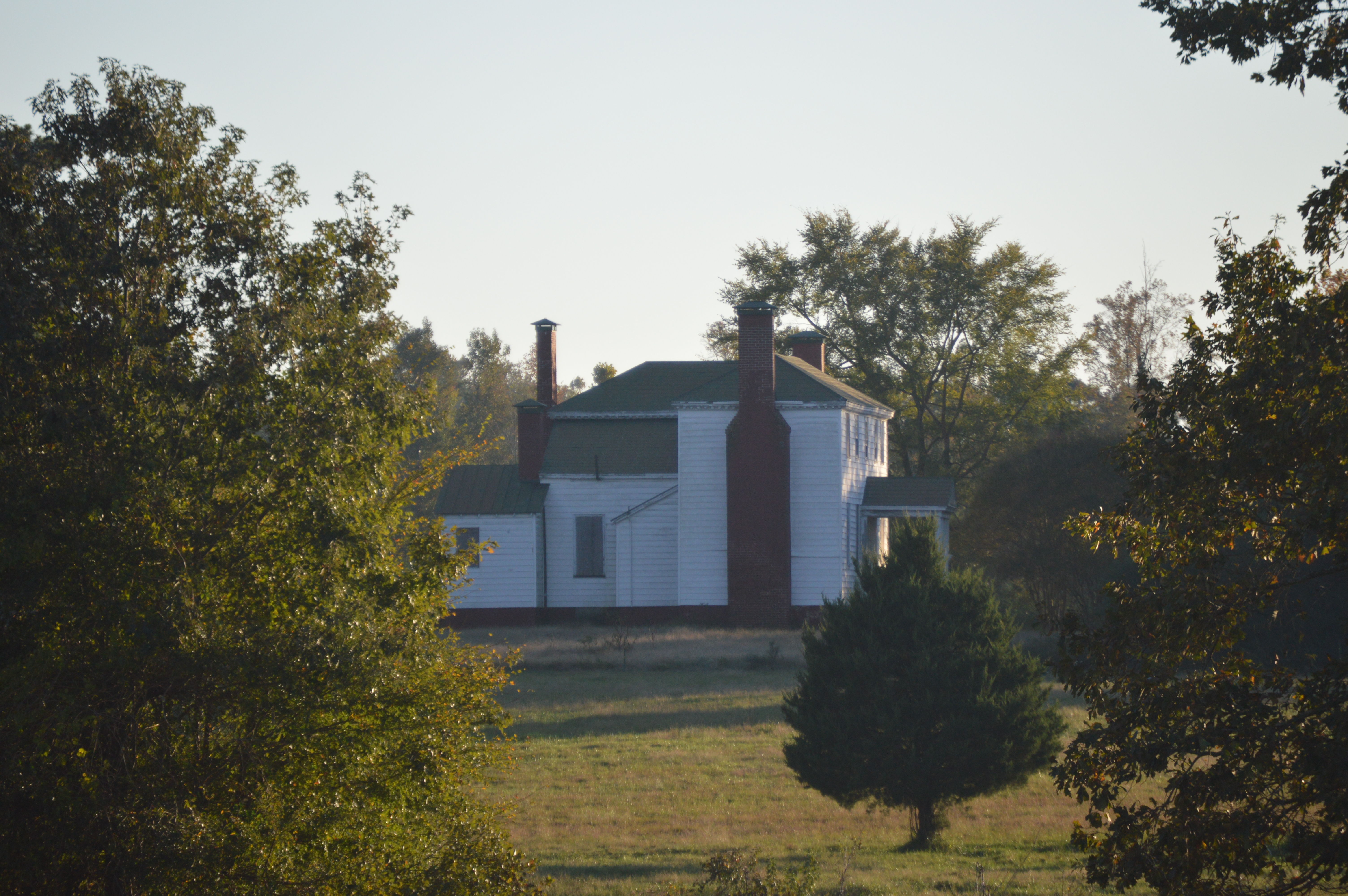 Distant view from the north of the main house at the Glenview farmstead, located at 13098 Comans Well Road northeast of Jarratt in Sussex County, Virginia, United States. Built in 1800, it is listed on the National Register of Historic Places.